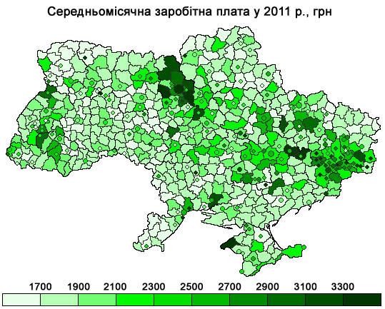 Average monthly salary in Ukraine, 2011 (in hryvnias)